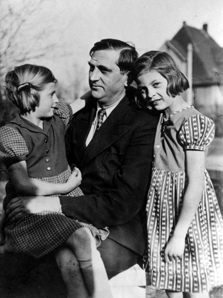 German anti-fascist John Graudenz with their daughters.